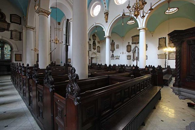 St Michael, Cornhill, London EC3, near to London, City of London, Great Britain.